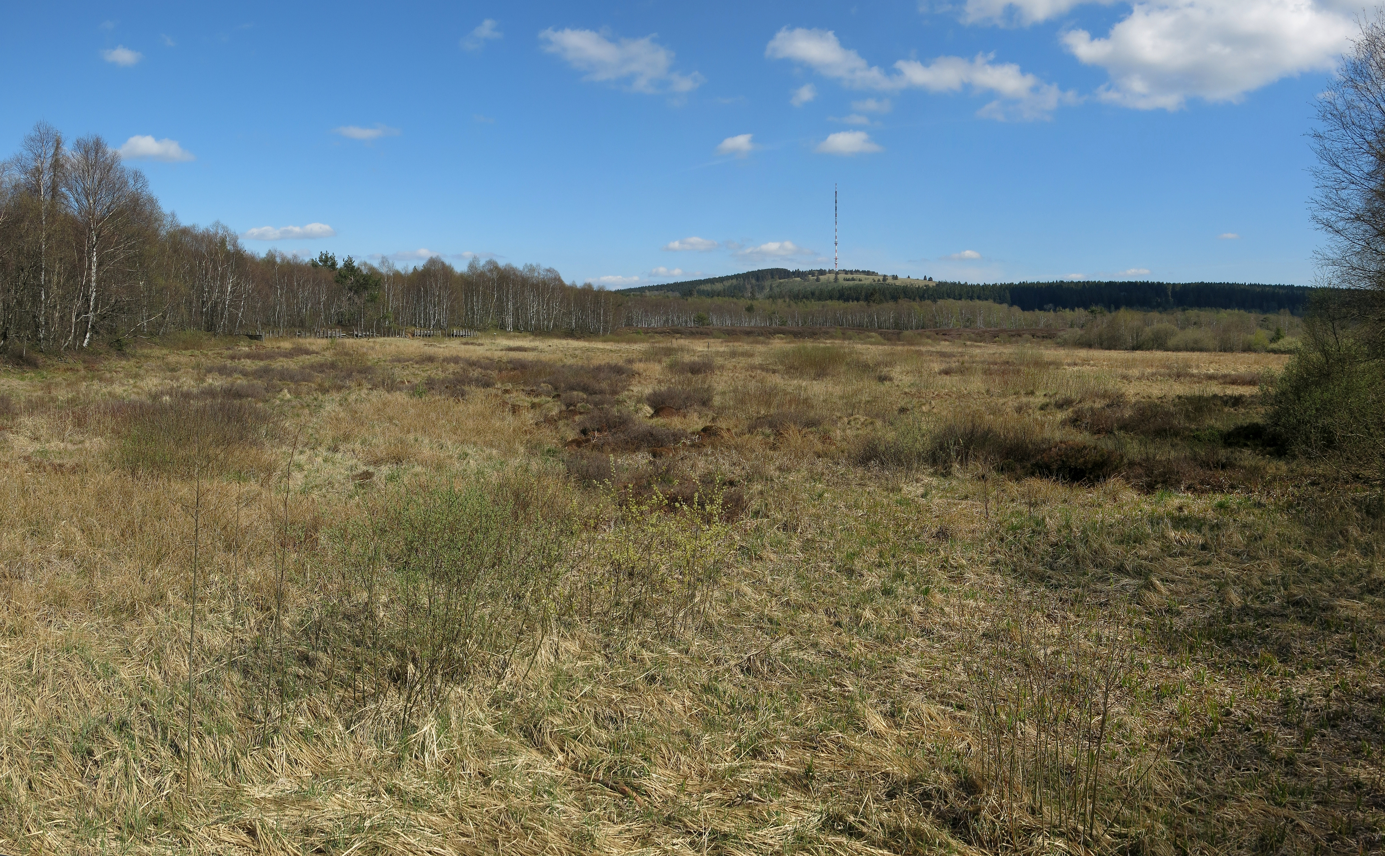 View from bellow the observation tower into the Red Moor. In the background the Heidelstein